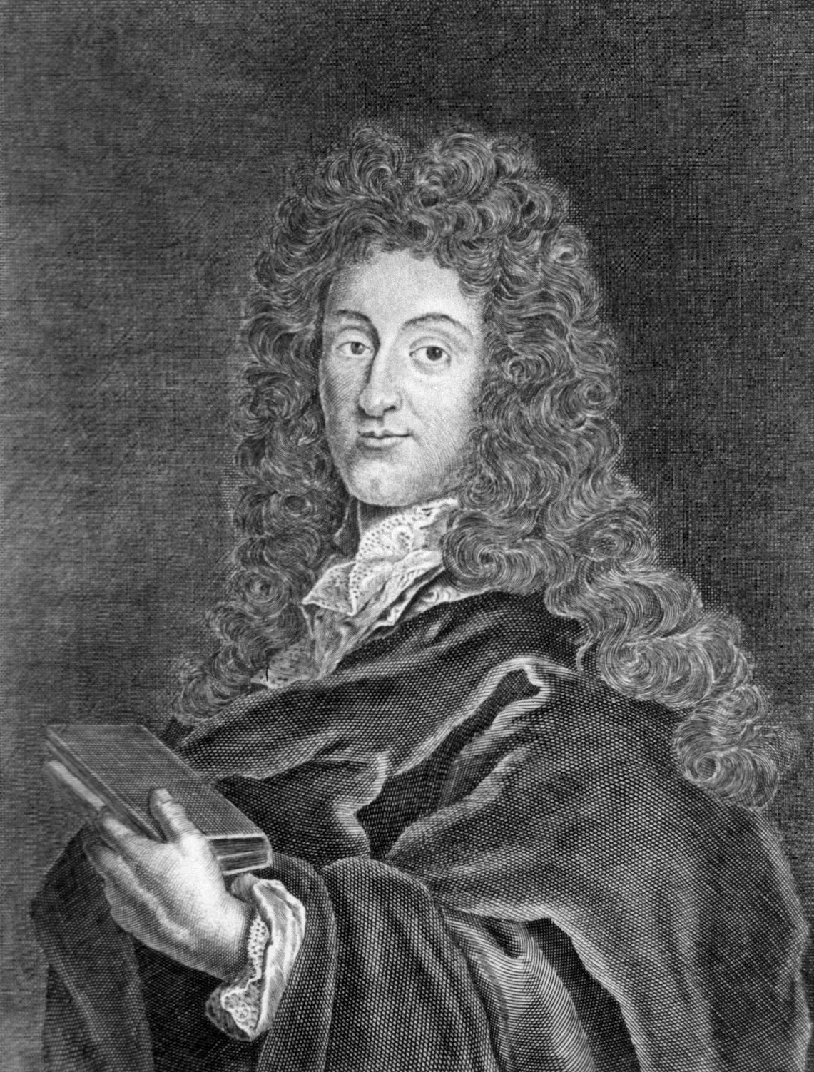 French chemist and physician Nicolas Lémery (1645-1715)